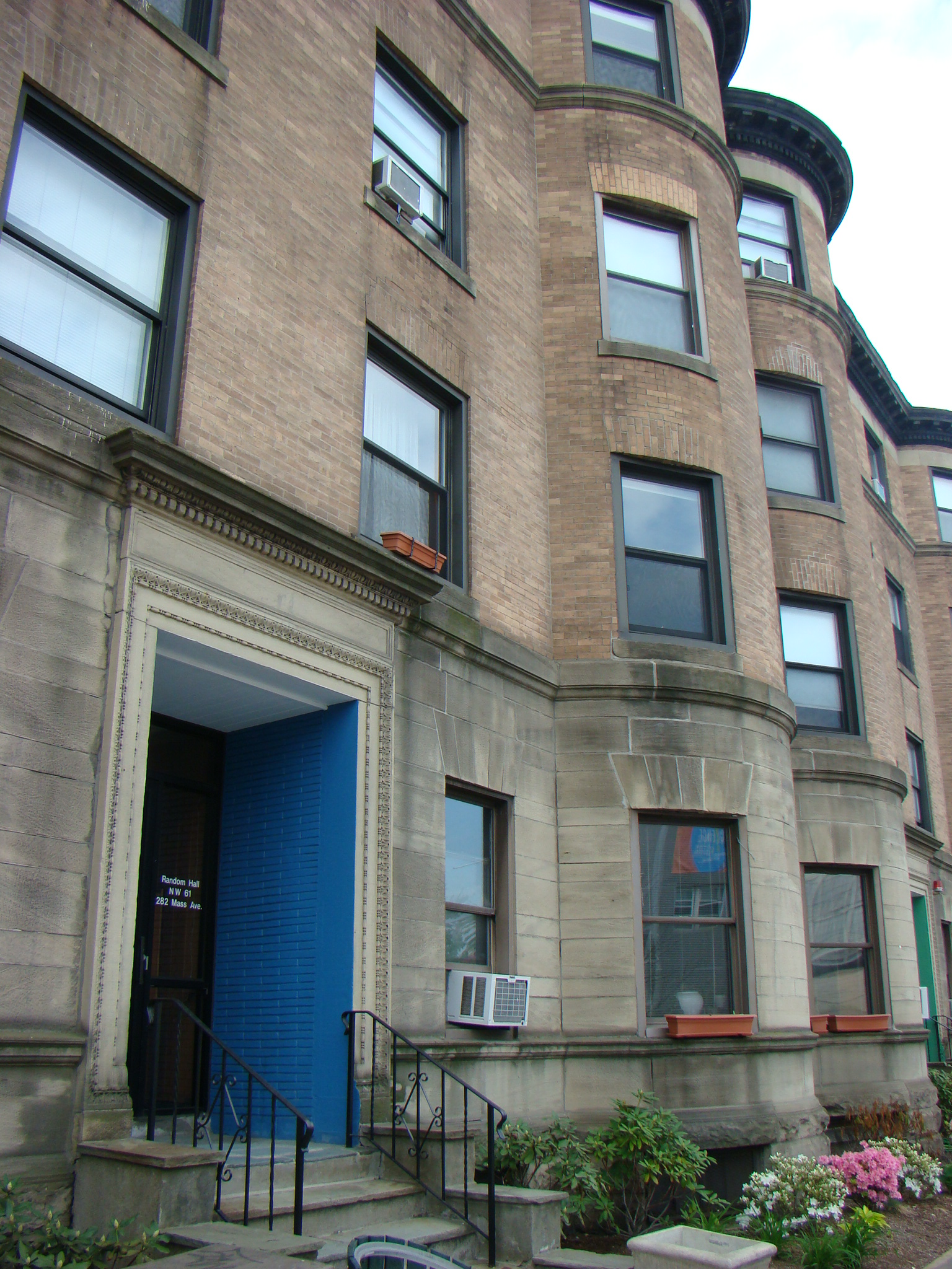 Random House Dormitory, MIT, Cambridge, MA